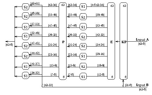 PNG version of File:Loki97-f.gif. LOKI97 block cipher round function f detail.